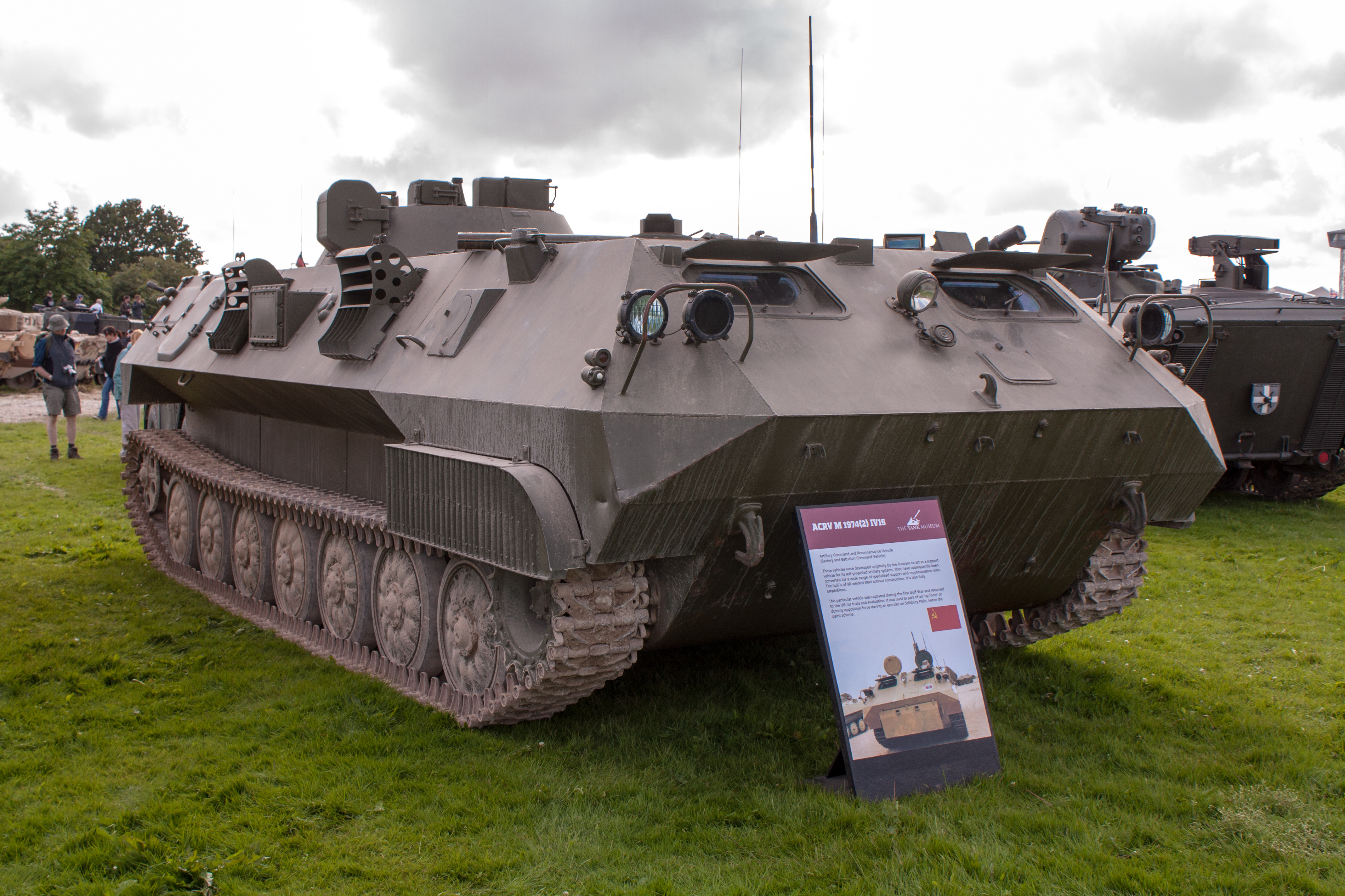 ACRV M 1974(2) IV15